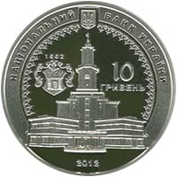 The obverse of commemorative silver coin of Ukraine "350 years of Ivano-Frankivsk" (2012)